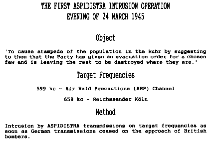 The First Aspidistra Intrusion Operation - op order from WWII.